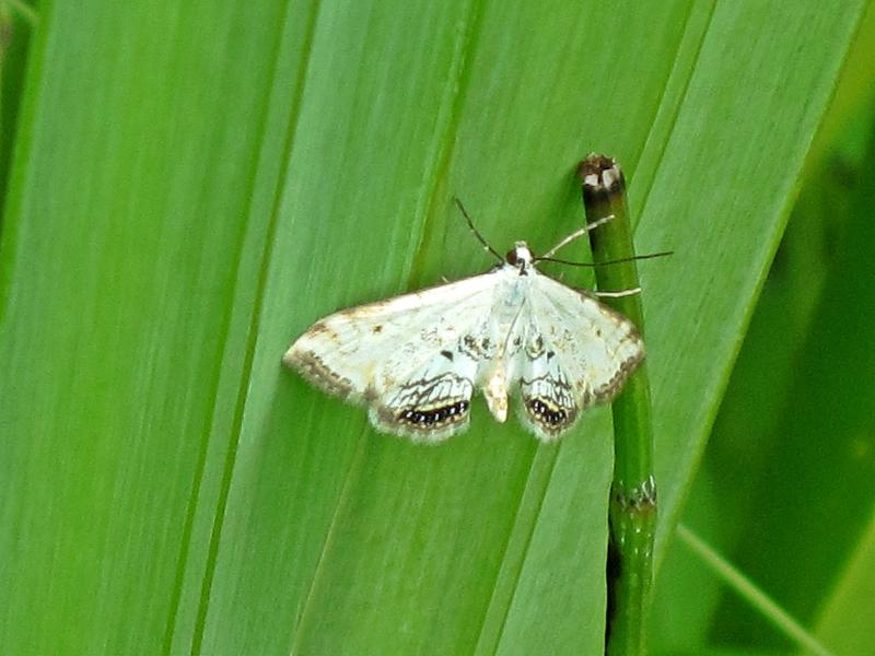 Cataclysta lemnata (Small China-mark), Elst (Gld), the Netherlands